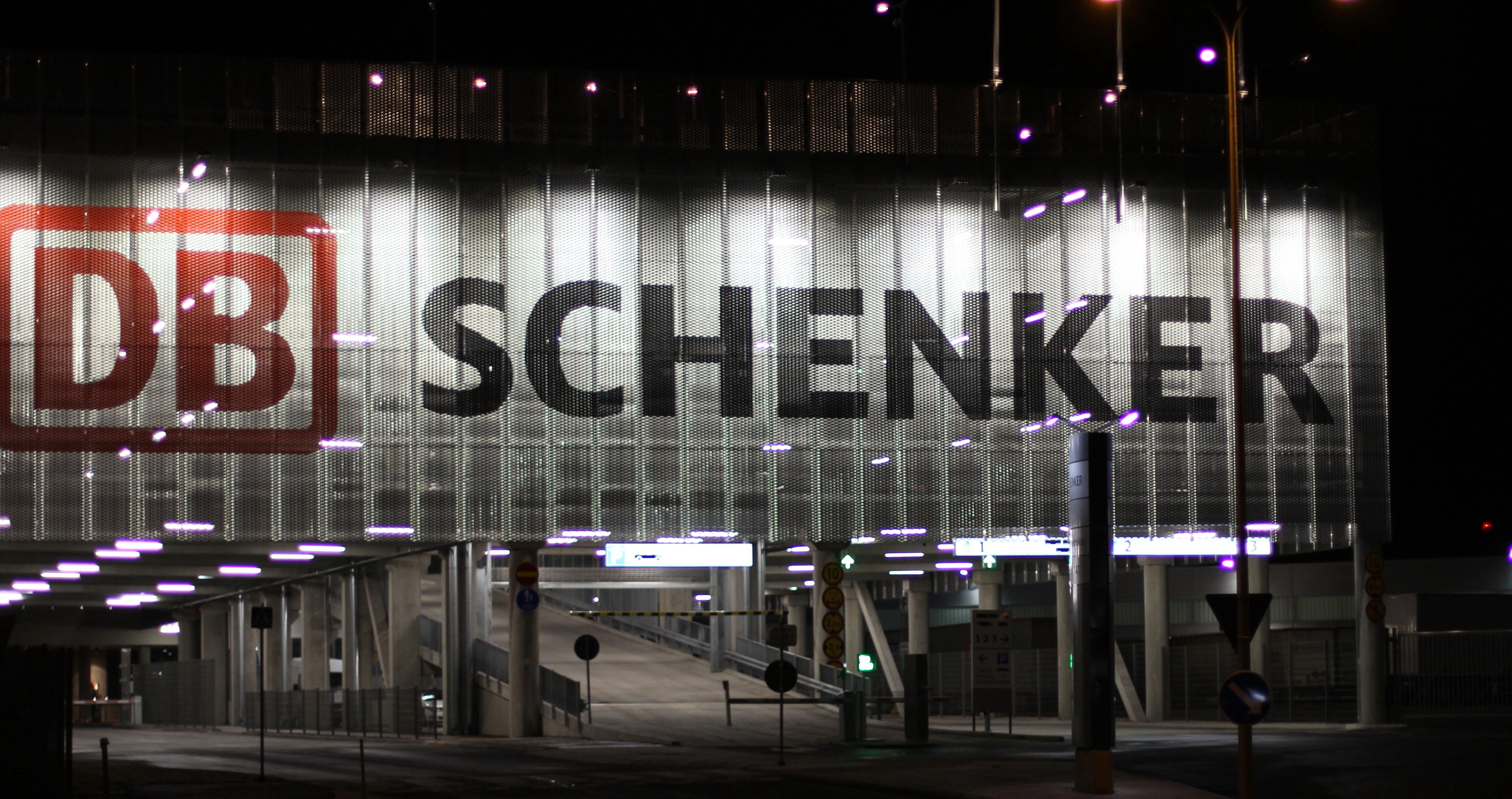 DB Schenker Finland terminal, Viinikkala, Vantaa, Finland.